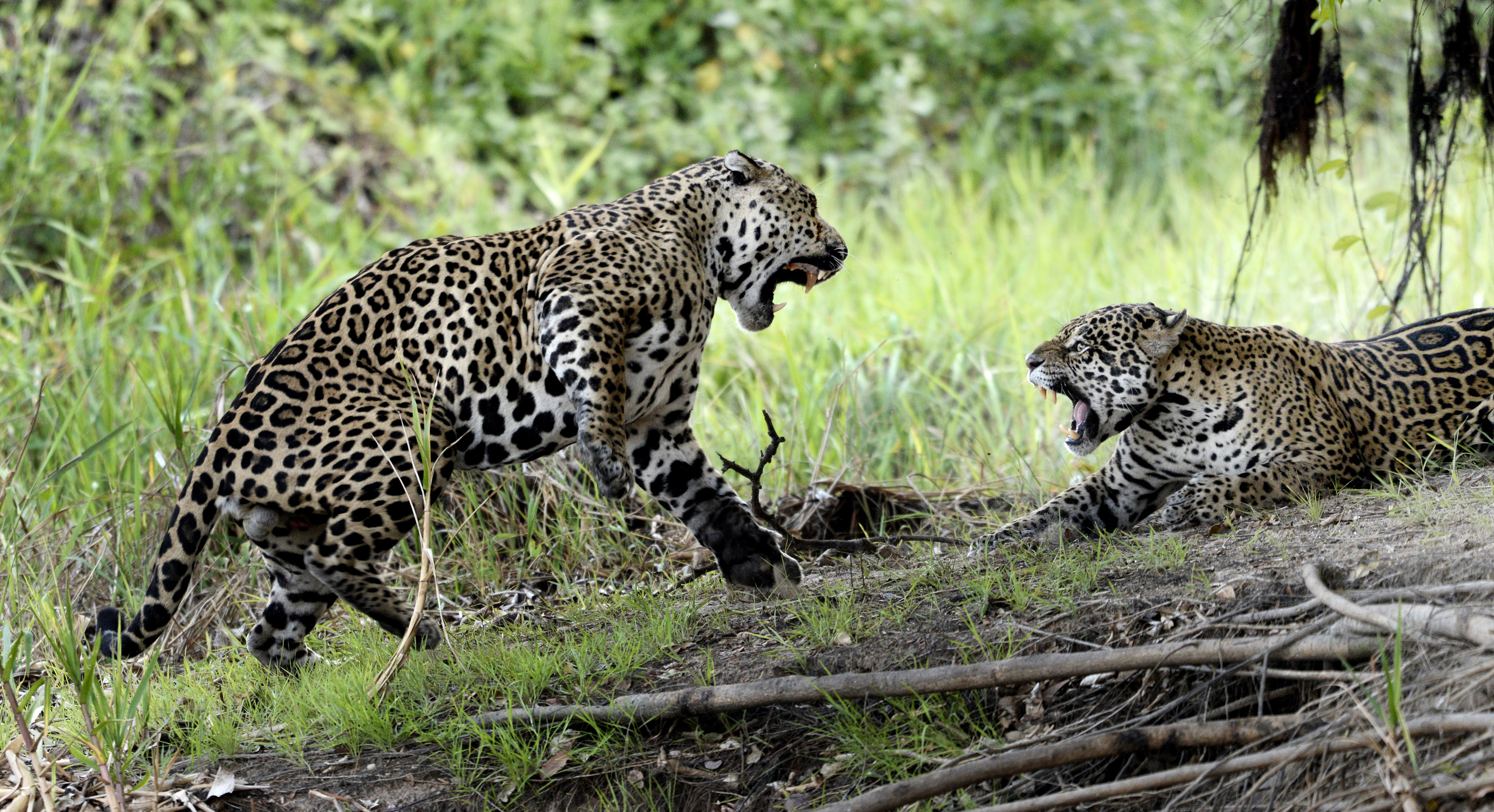 20151024 Jaguars fazem amor et son muito furioso.The jaguar couple in northern Pantanal begins to fight.Photo by: Jan Fleischmann